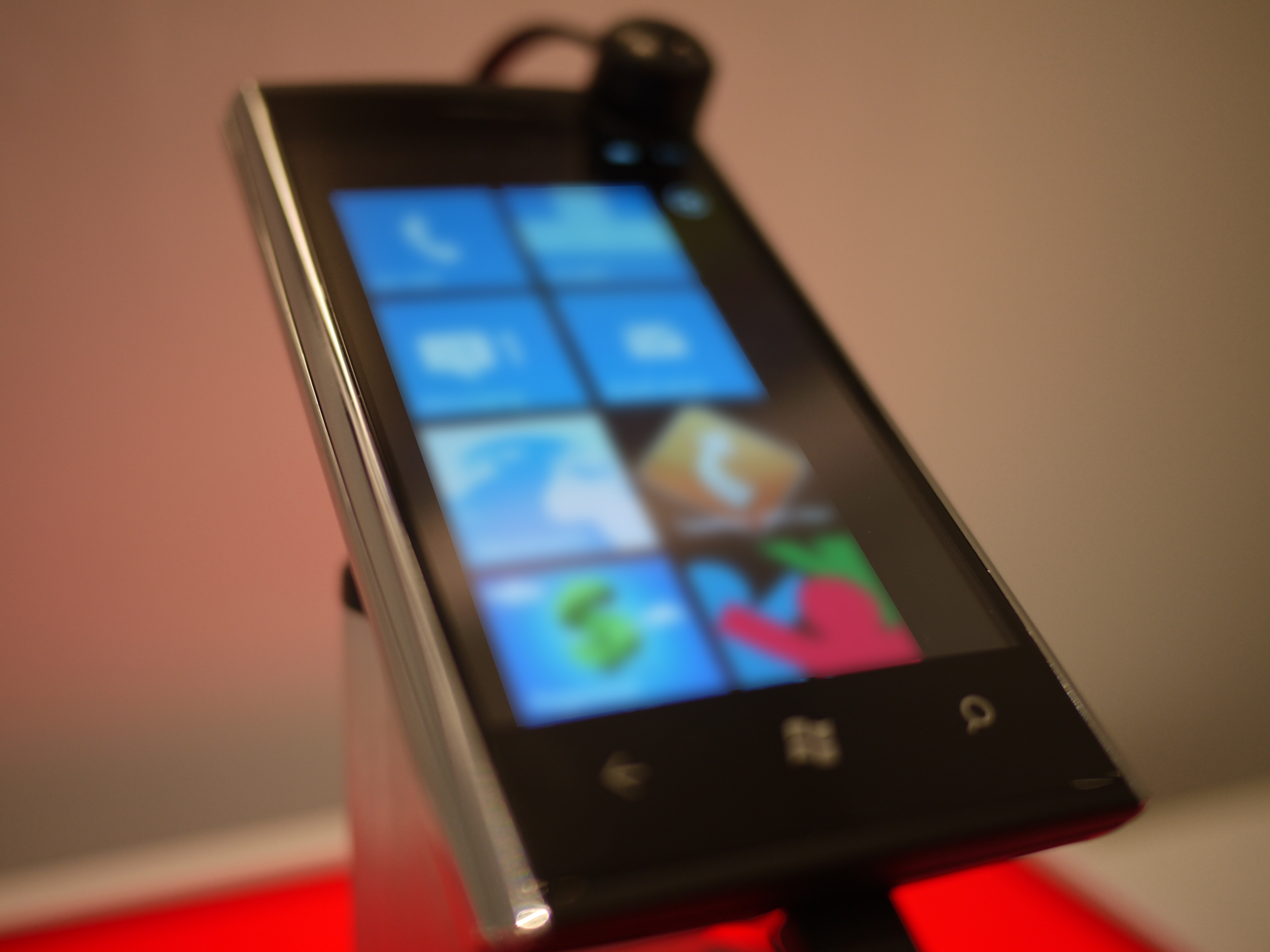 The image deplict the Dell Venue Pro running Windows Phone 7.